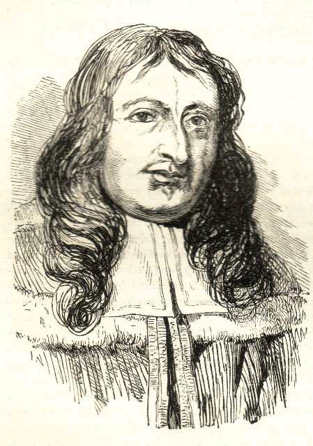 Sir John Gilmour, Scottish gentleman and Lord President of the Court of Session from 1661 to 1670.